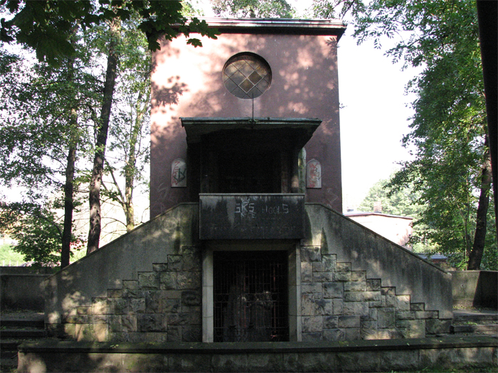 Calvary in Katowice Panewniki, Chapel of the Rosary - The second sorrowful mystery "Scourging at the Pillar". Built in 1958.